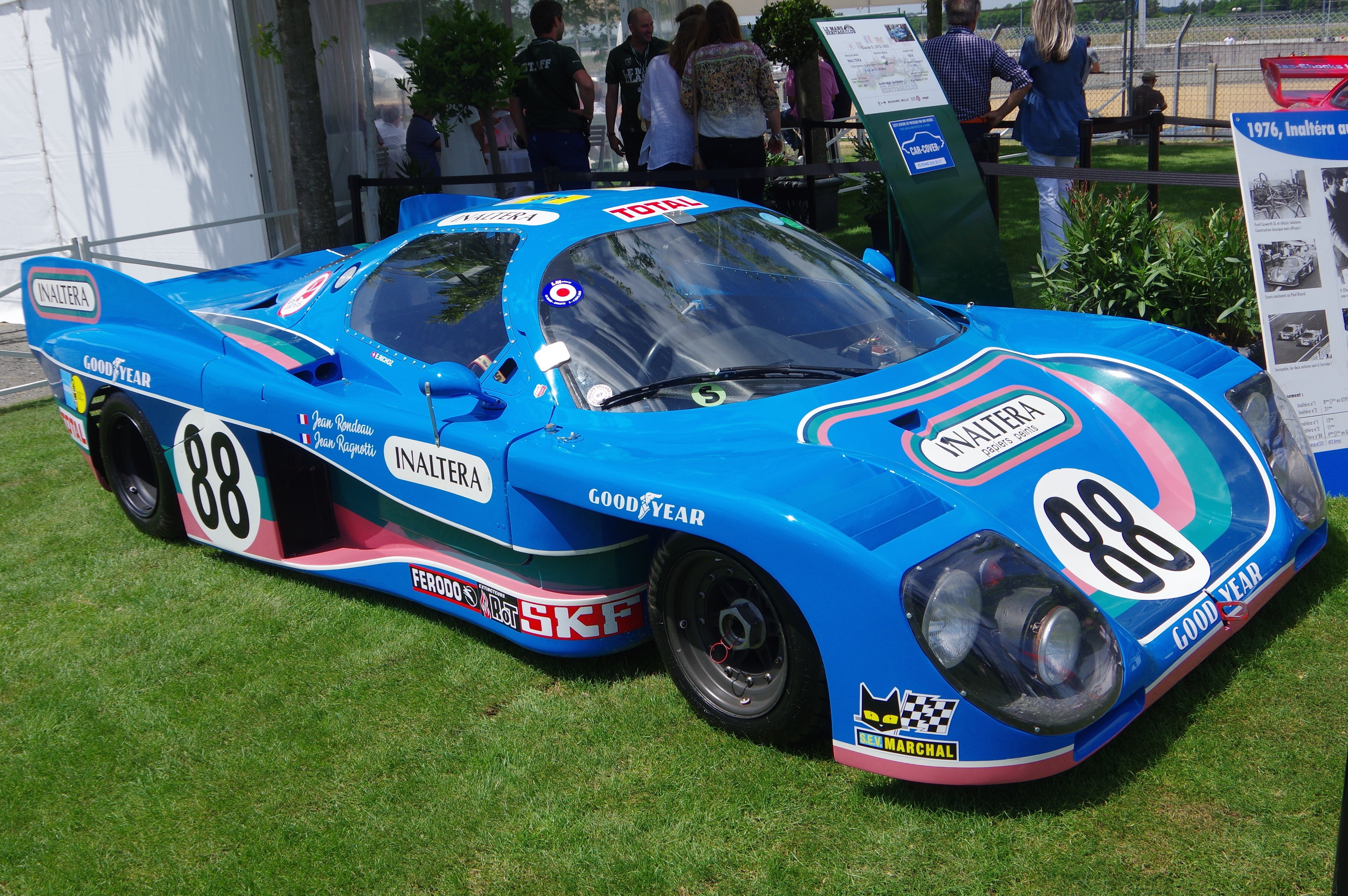 Le Mans Classic 2016 Driven by Jean Rondeau and Jean Ragnotti at Le Mans 1977 (Finished 1st in class and 4th overall)